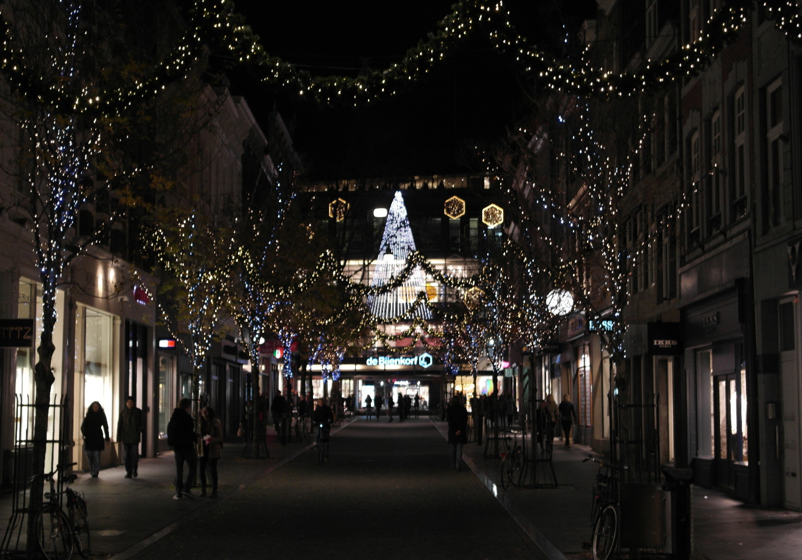 Maastricht, the Netherlands. Maastrichter Brugstraat with Christmas lights.